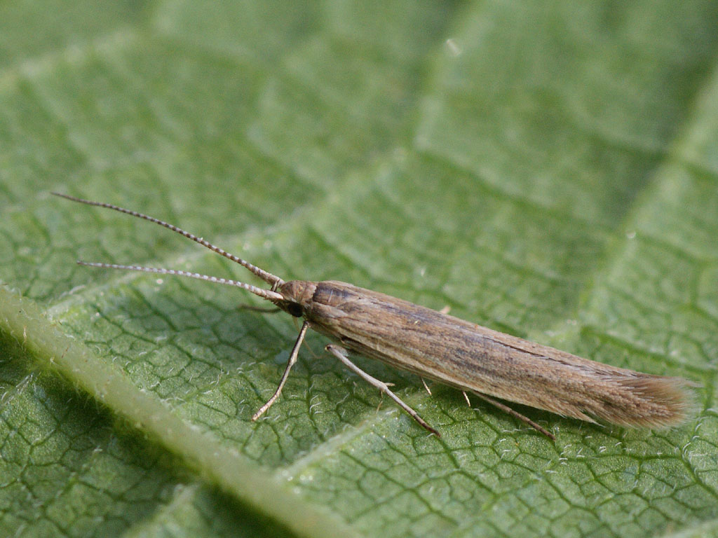 Exemplar found: Russia, Moscow, Mozhaysky District, Bagritskogo str., 11.09.2014, by light Москва, р-н Можайский, ул. Багрицкого, 11.09.2014, на свет